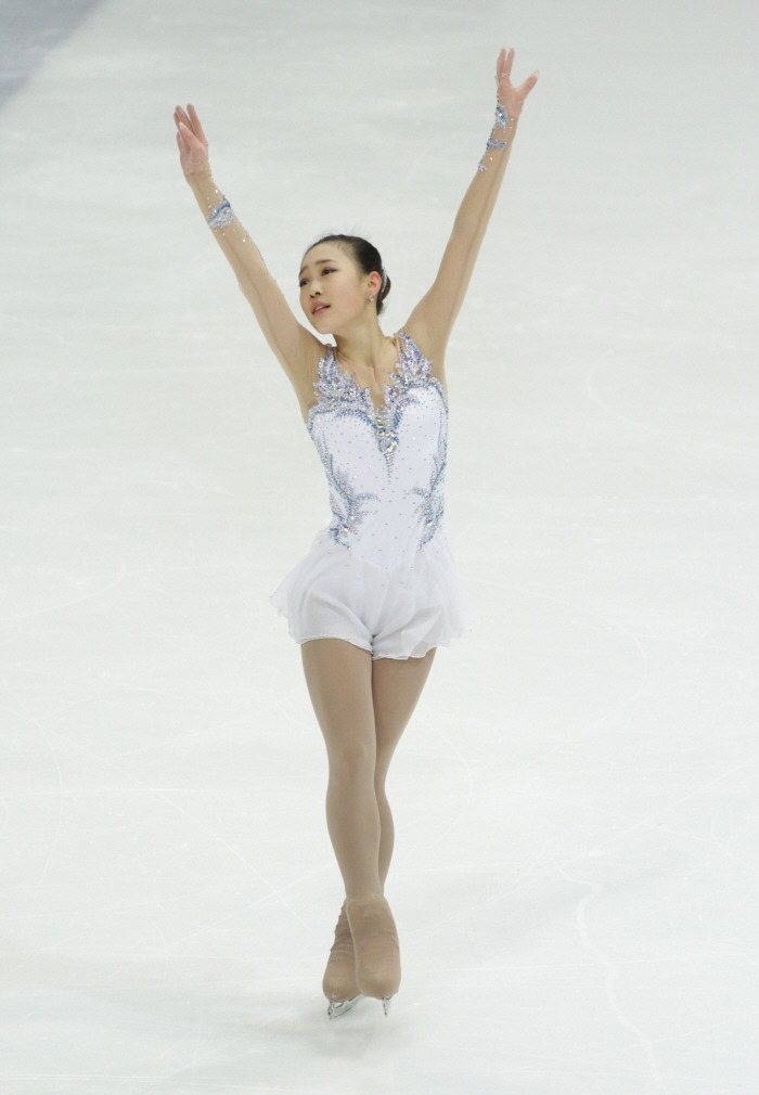 soyoun park 2013-2014 short